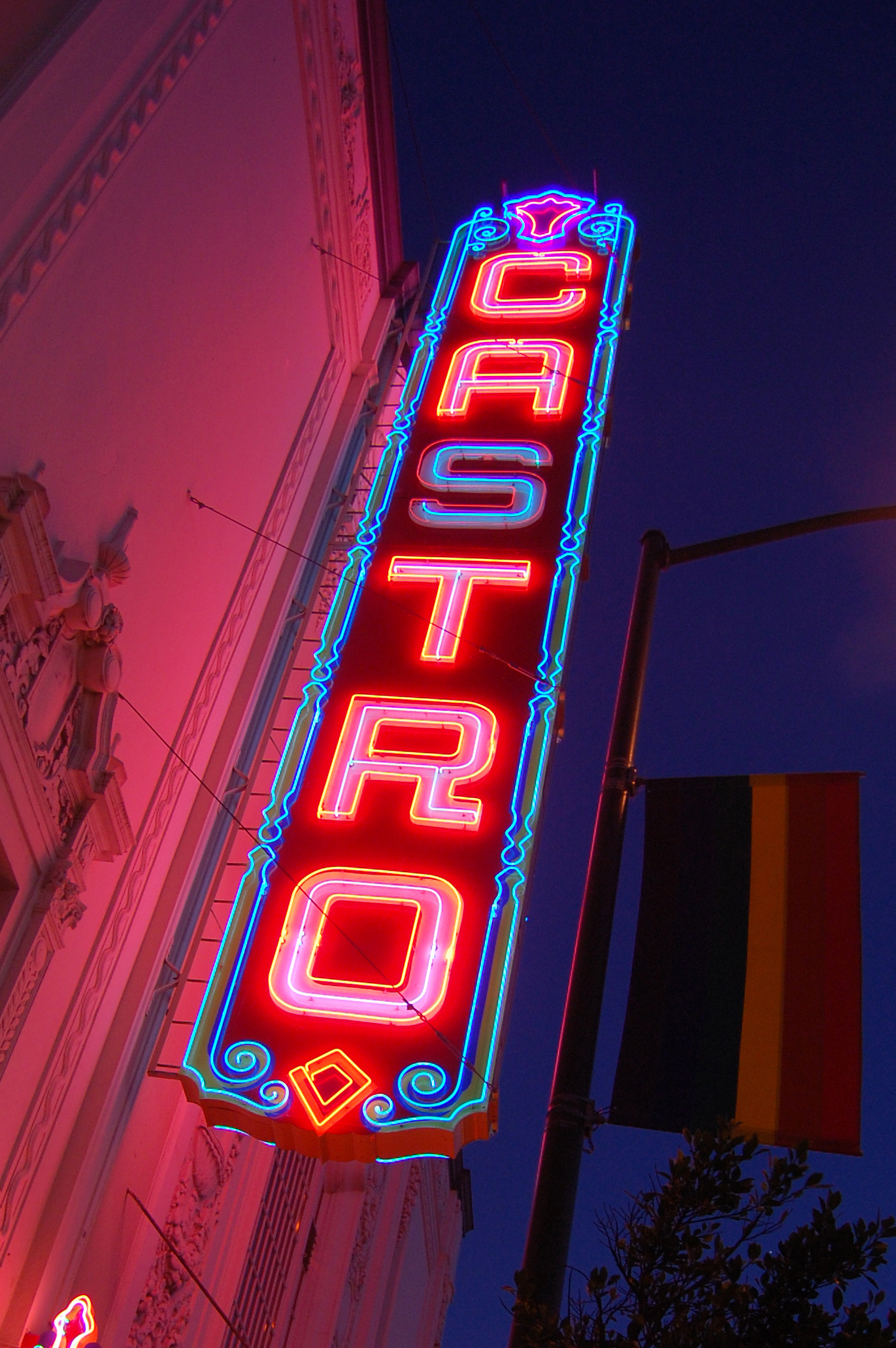 CASTRO